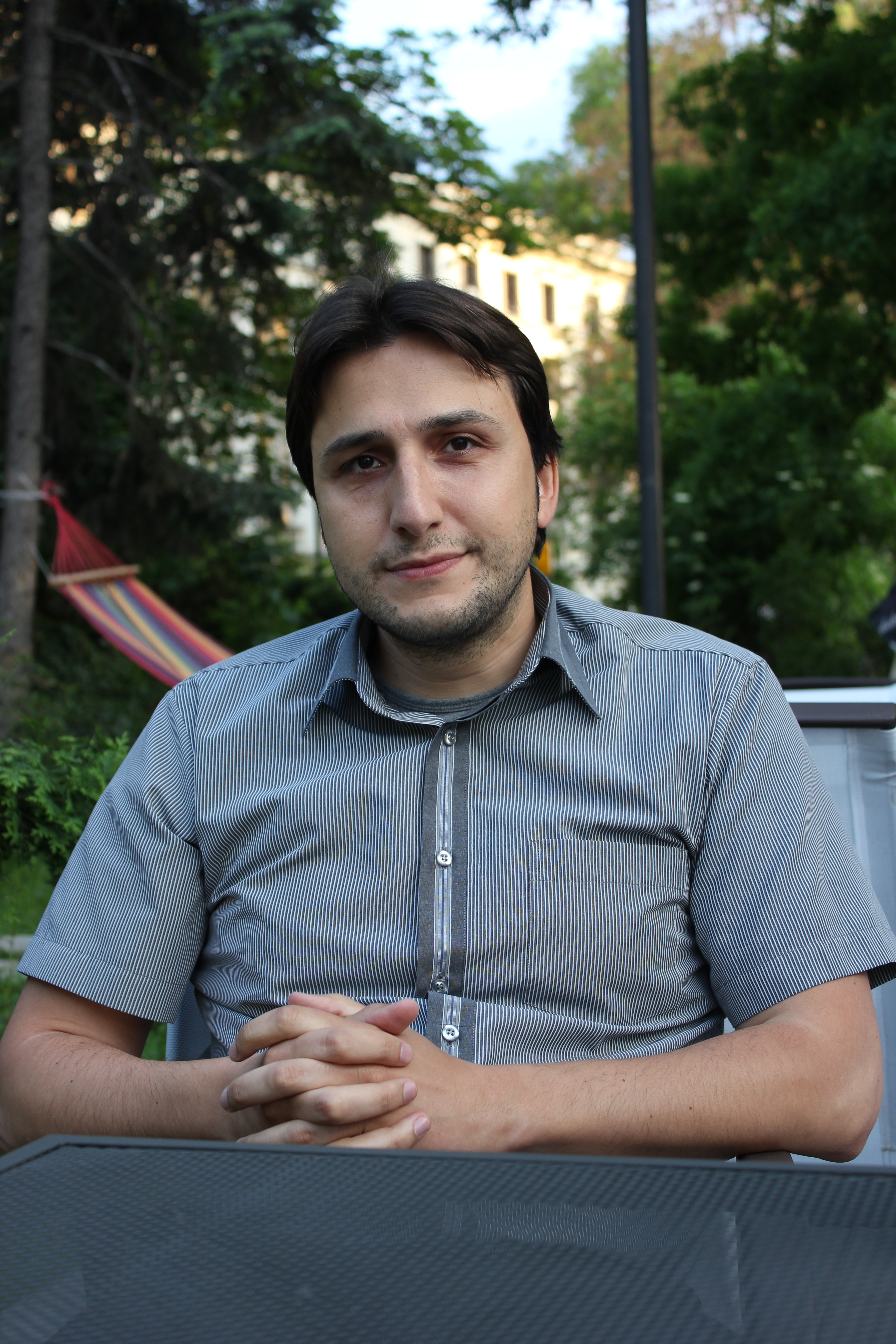 Evgeni Cherepov - Bulgarian writer